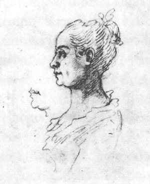 Portrait of Marianna Bulgarelli